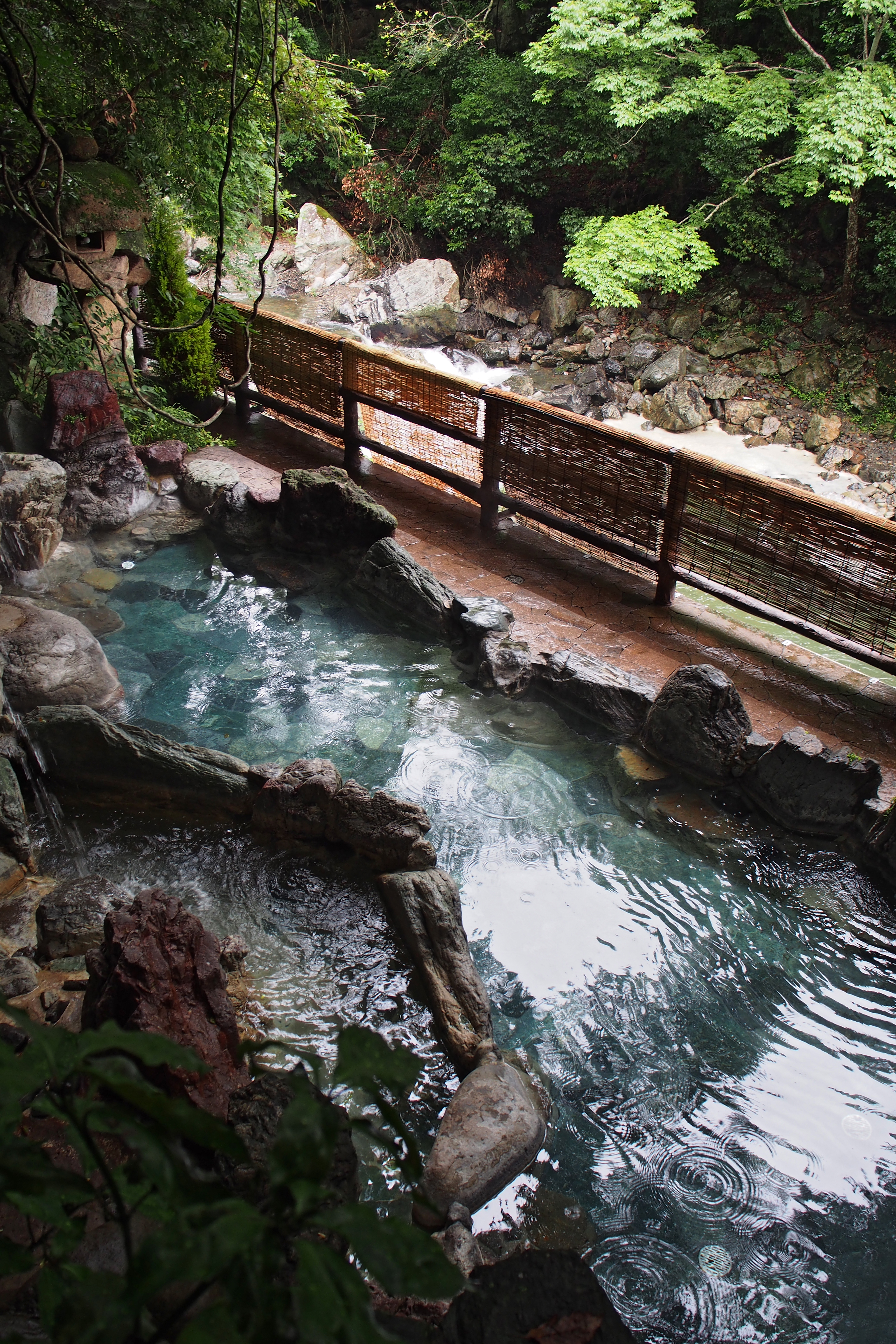 Settsukyo Onsen, Settsu-kyo in Takatsuki, Osaka prefecture, Japan